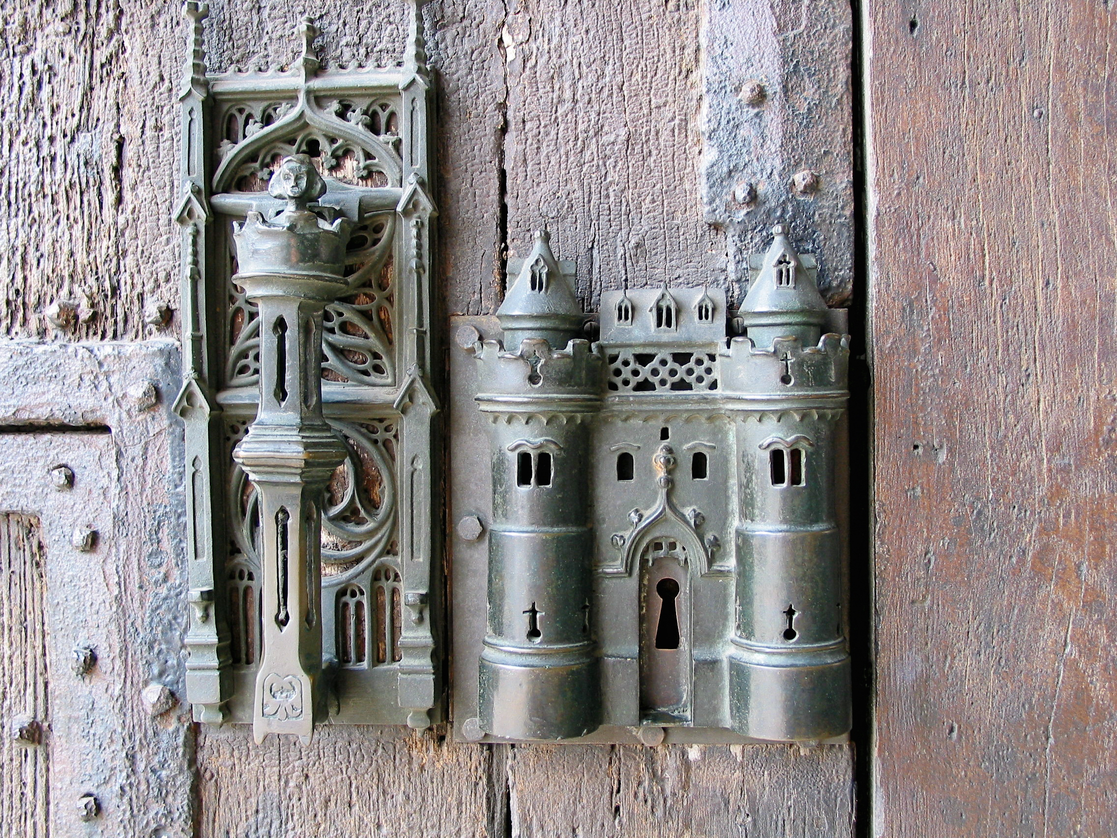 Mons (Belgium), the city hall lock.